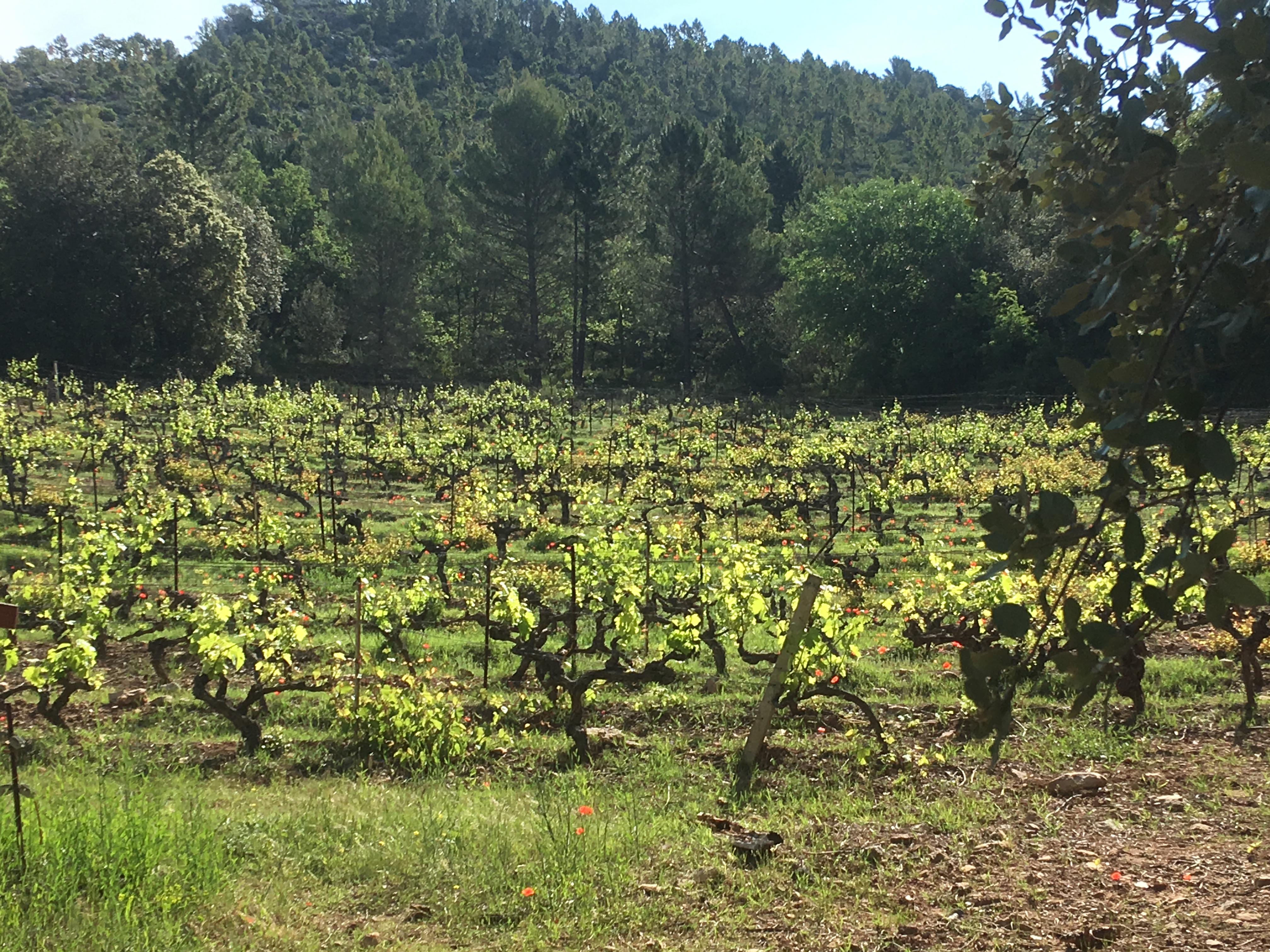 Domain Saint-Jean Villecroze